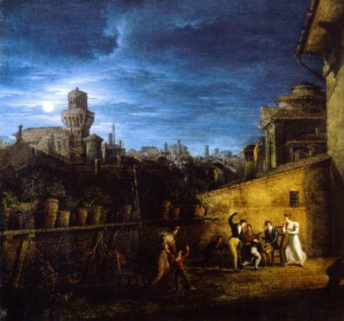 Title: Terrazzo nel locale della Pontifica Accademia di Belle Arti (found in Vedute pittoresche della città di Bologna from 1933)